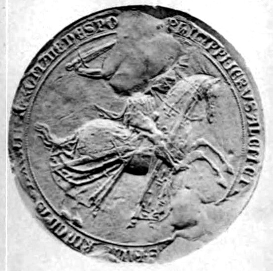 Seal of Philip I of Taranto